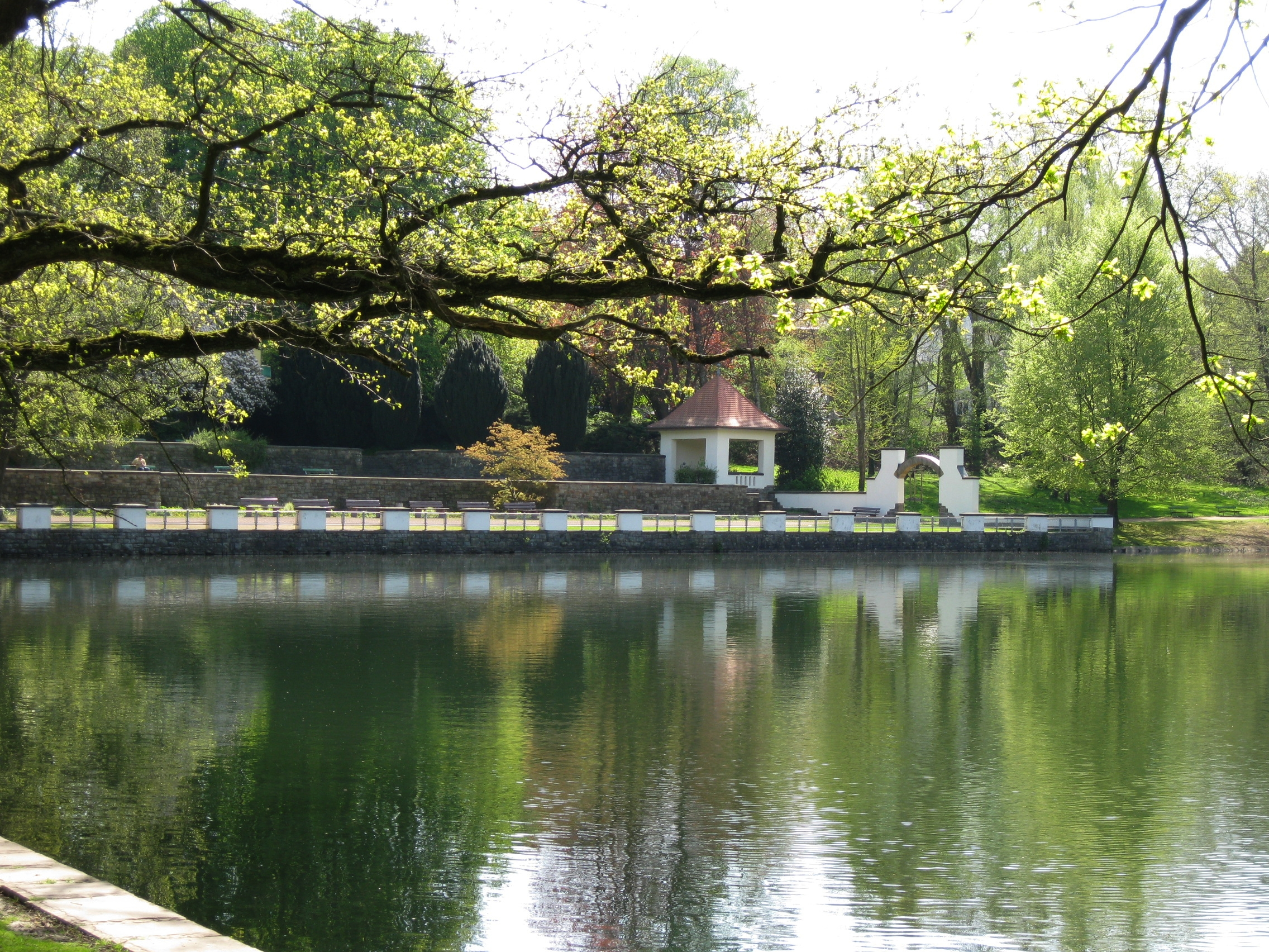 Aachen: Hangeweiher - lakeside terrace